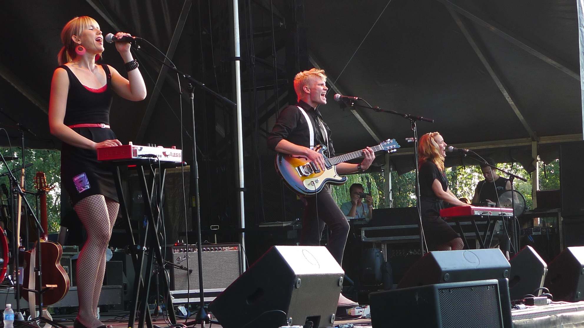 Mother Mother (left to right: Molly, Ryan and Jasmin) Mother Mother rock BC Day with the Arkelles and Sam Roberts!